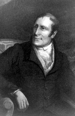 Photograph of Portrait of Henry Bell. Before 1830, artist unknown. In the public domain. Henry Bell (April 7, 1767 – March 14, 1830) was a Scottish engineer who is famed for introducing the first successful passenger steamboat service in Europe. Source [1]